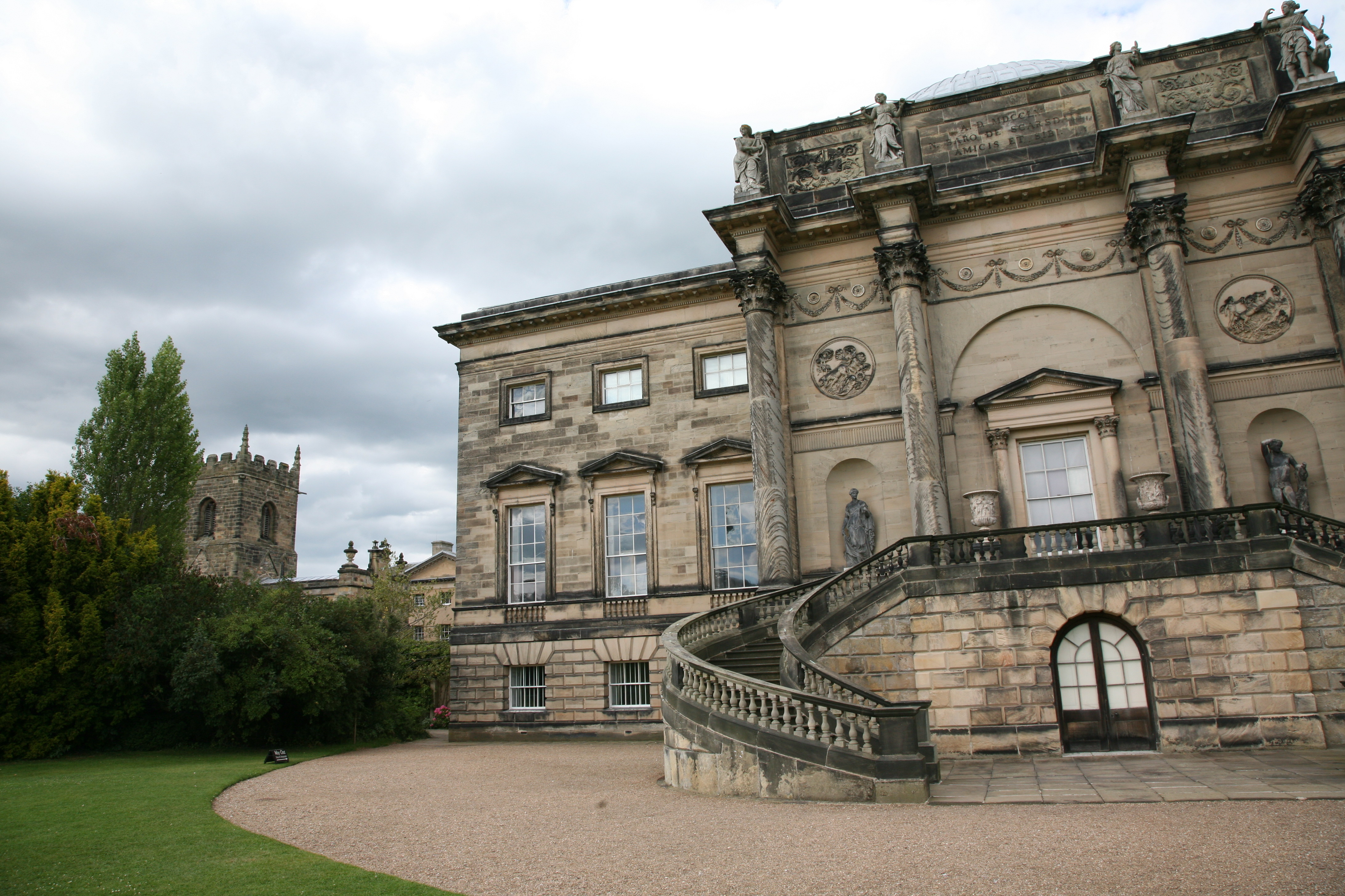 Kedleston Hall in Derbyshire. The house designed by James Paine, Matthew Brettingham and finished by Robert Adam The south front and the church.